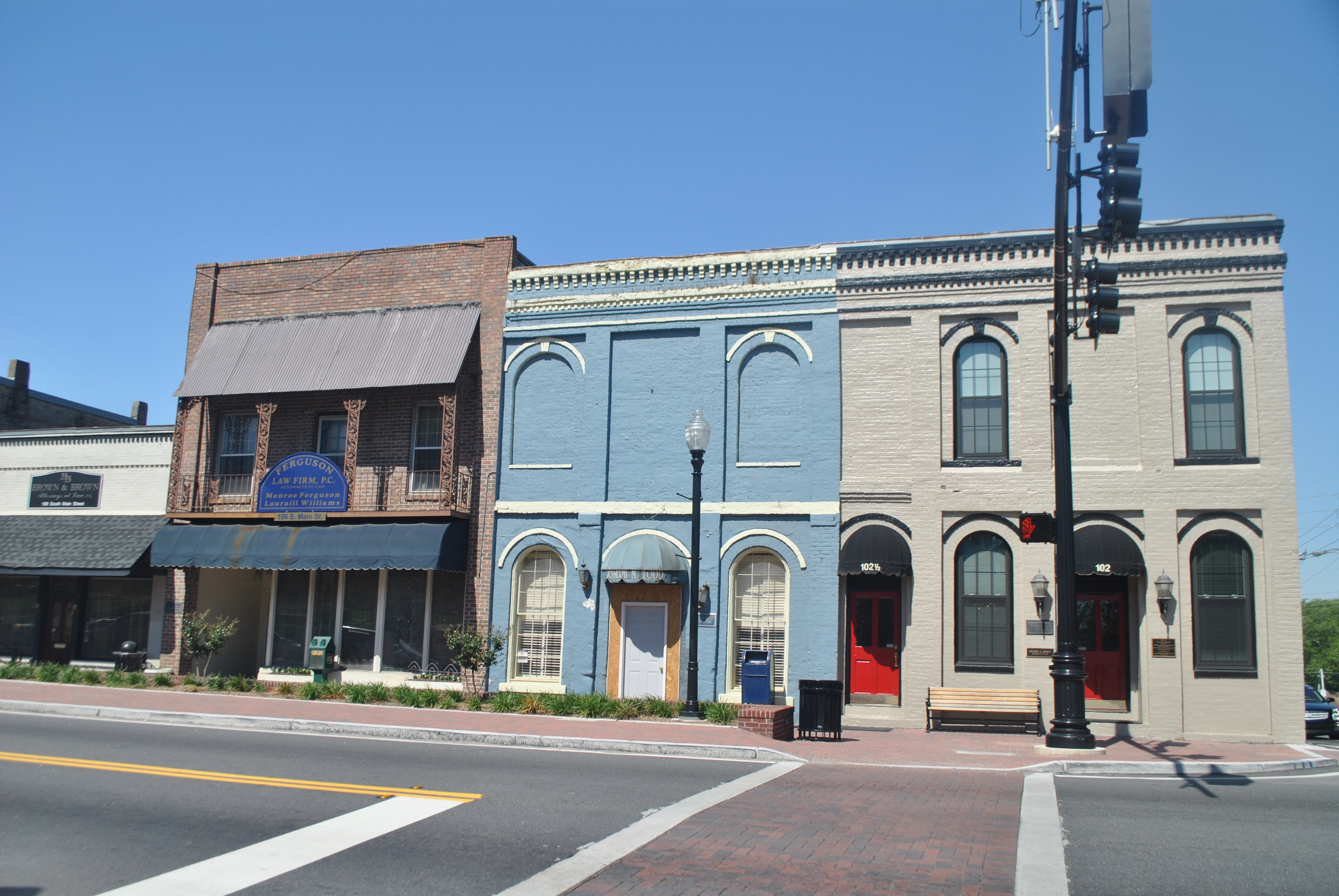 Jonesboro Historic District, GA 54 and 3 Jonesboro